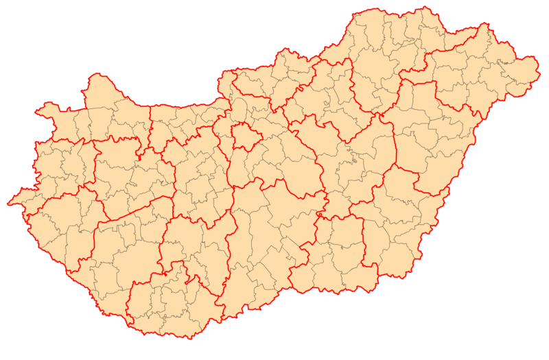 Map of Subregions of Hungary